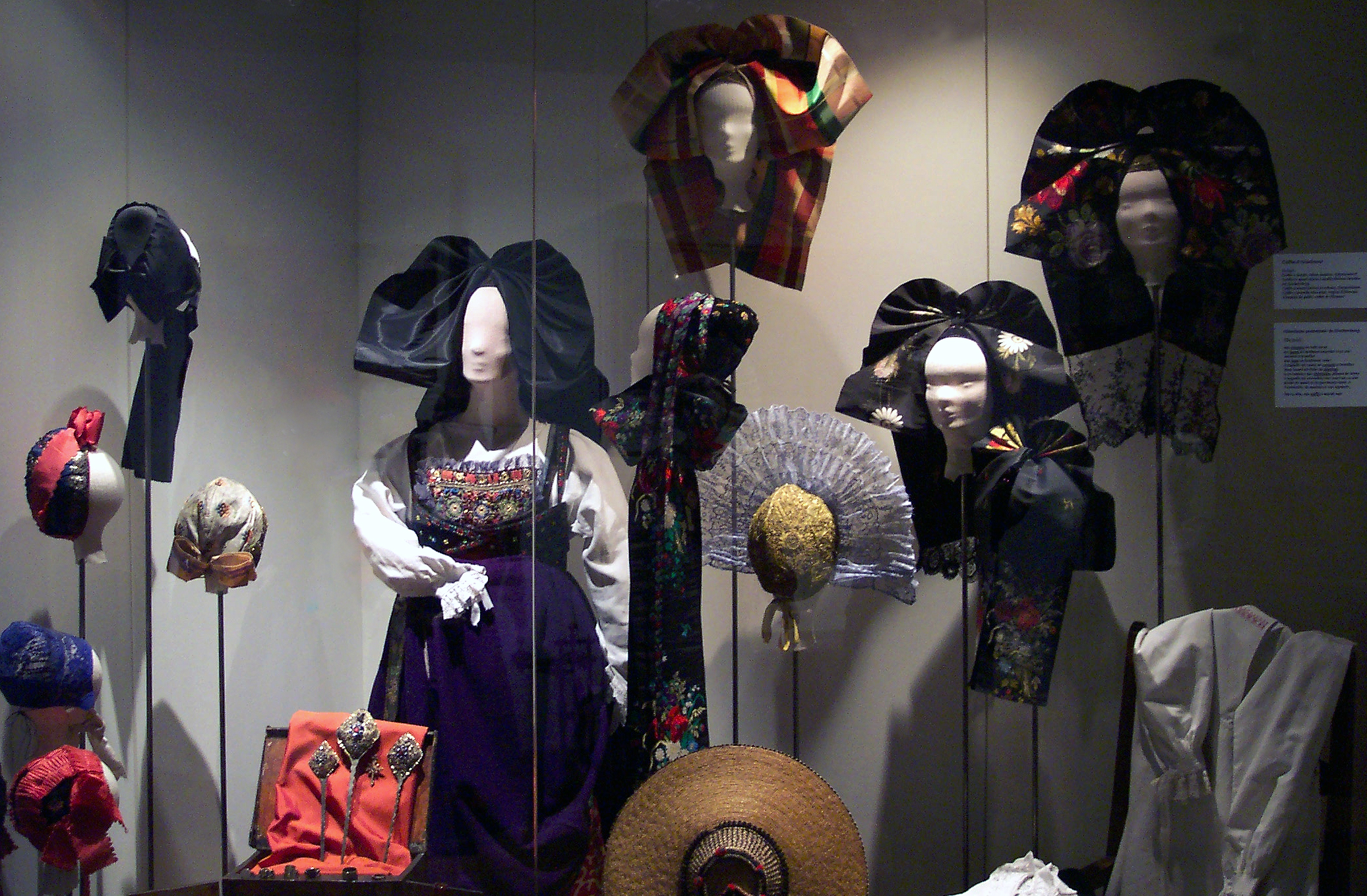 Typical old Alsatian costume. Strasbourg, France